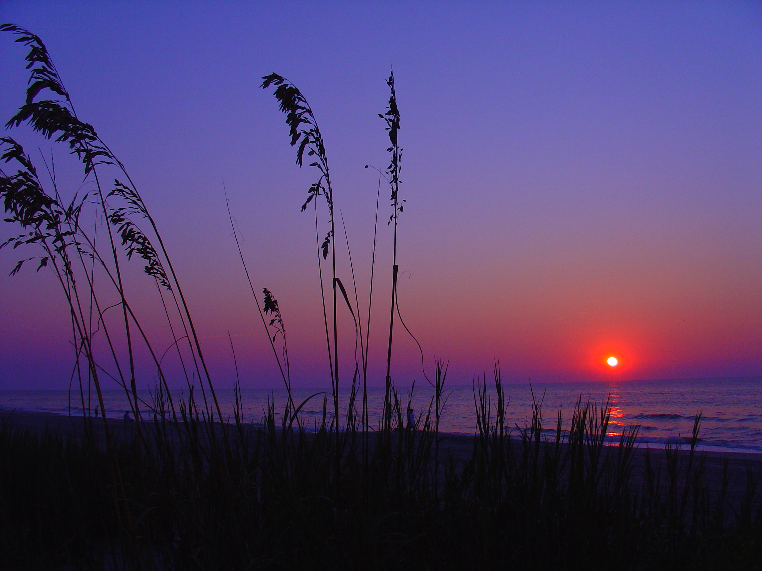 I took this photo on the dunes of Myrtle Beach, SC at sunrise in Fall 2005. Some filtering has been done with the camera (see metadata) to accent the colors of the sky.